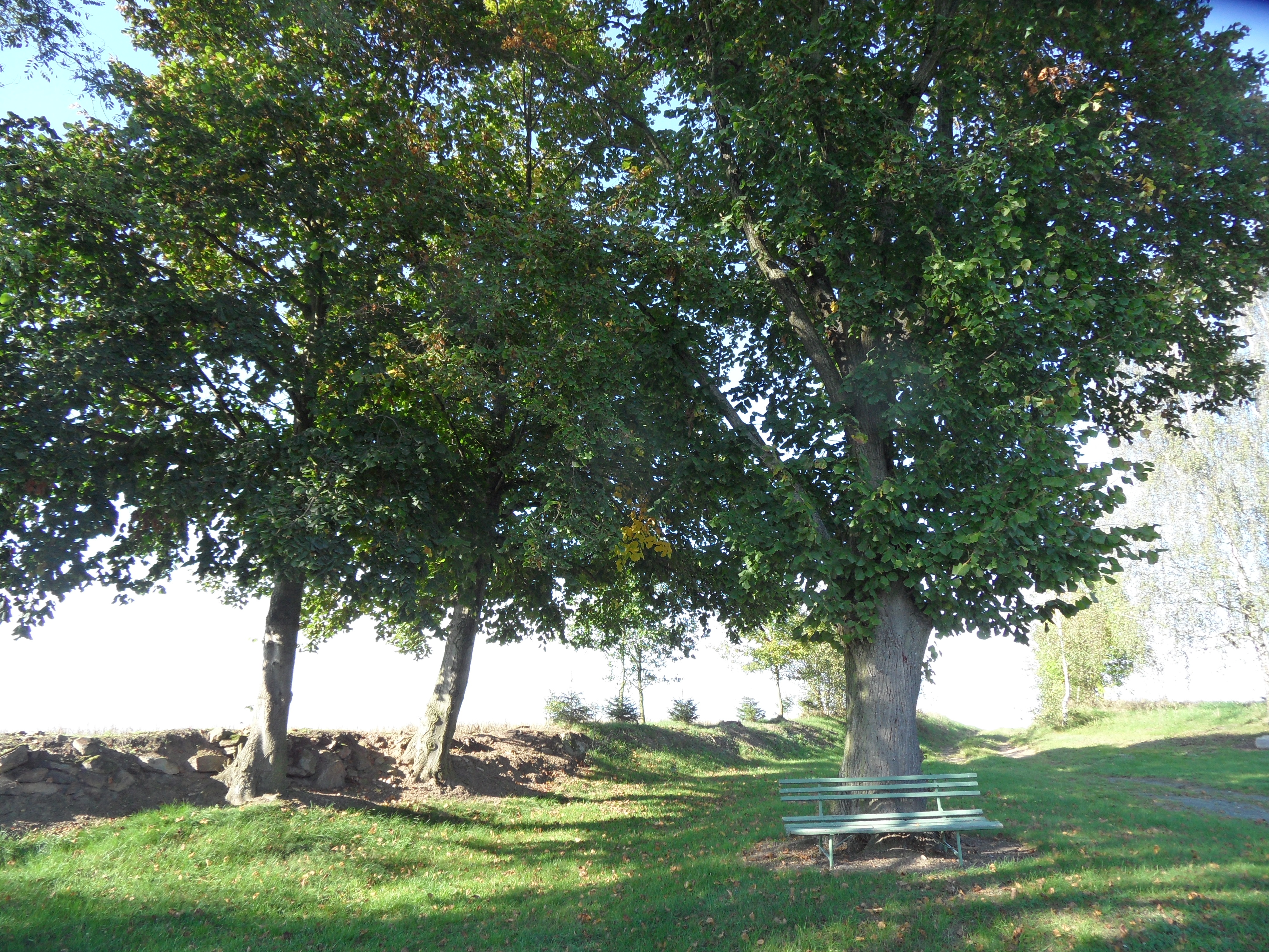 Radíkovice (Loket) E. Rest Area with Bench, Benešov District, the Czech Republic.